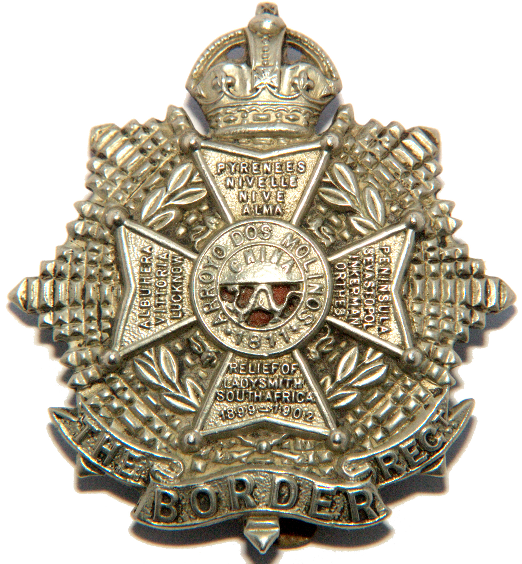 Photograph of a Cap badge of the British Border Regiment. This badge was produced during World War Two.